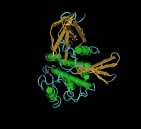 Tgf-Beta Receptor I Kinase With Inhibitor